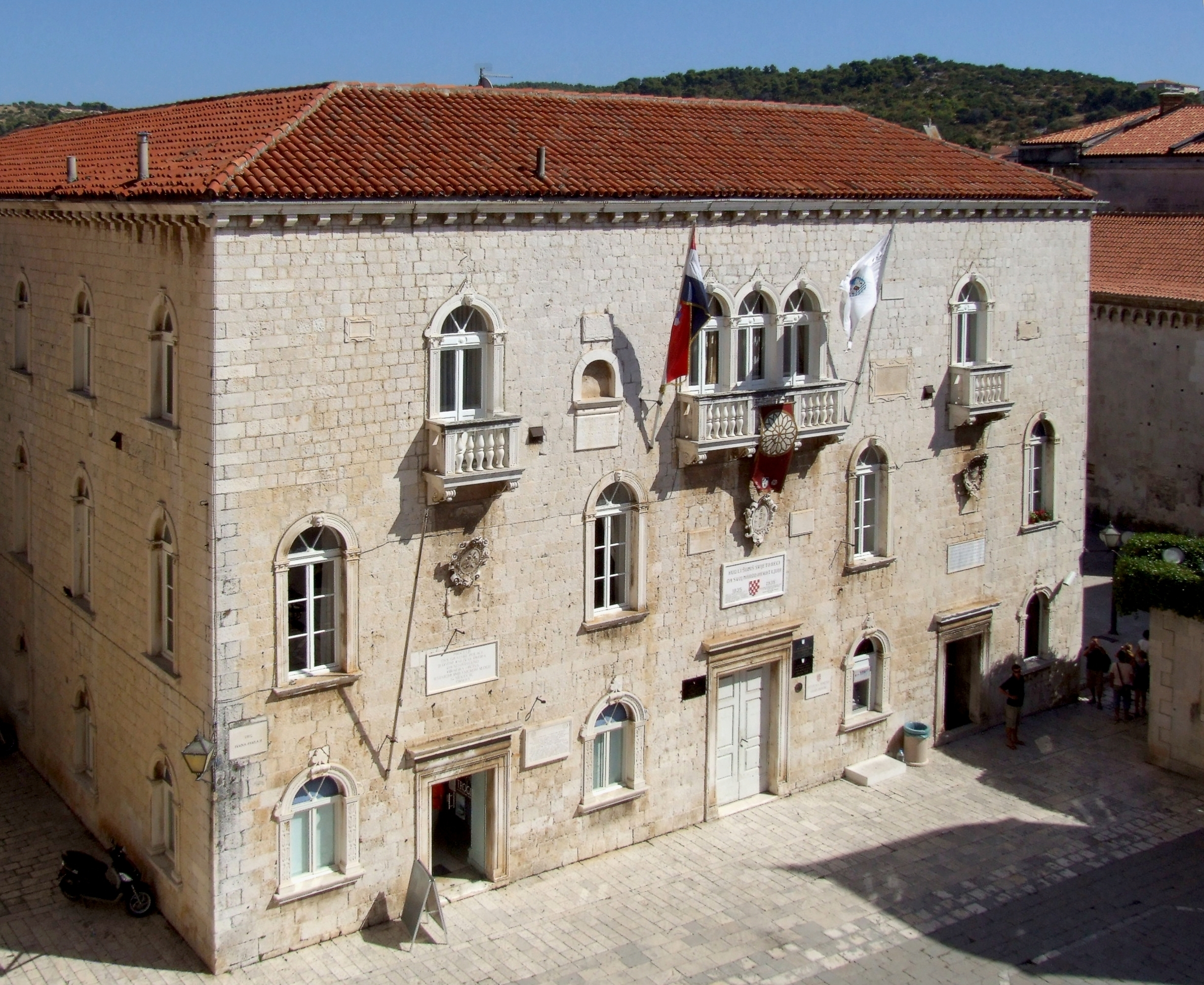 Town hall in Trogir, Croatia Ślůnski: Ratuż we sztadźe Trogir, Chorwacyjo